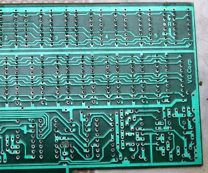 PCB section without devices